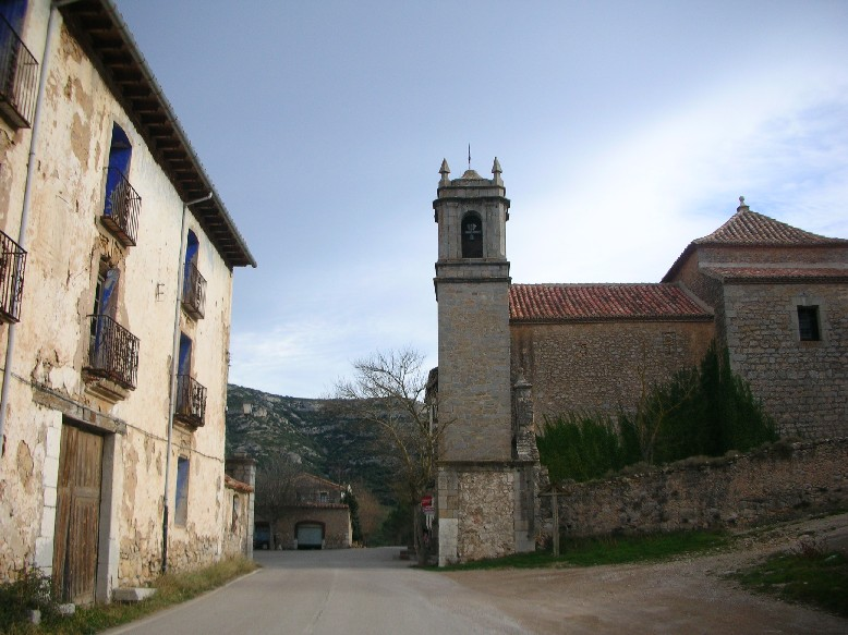 Vallivana, small and almost abandoned settlement east of Morella, famous for its Virgin of Vallivana